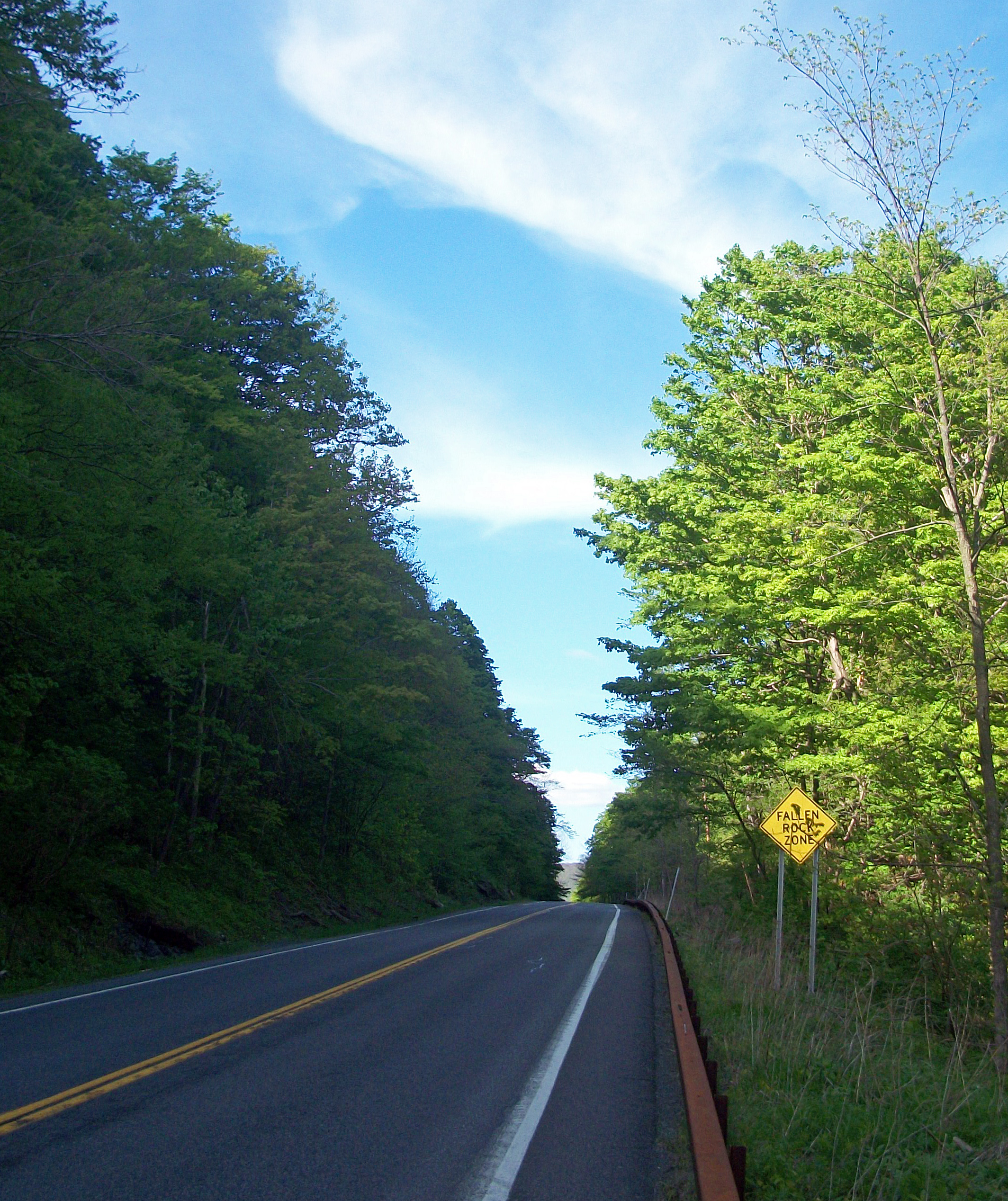 NY 42 at Deep Notch between Halcott Mountain and Mount Sherill, Lexington, NY, USA